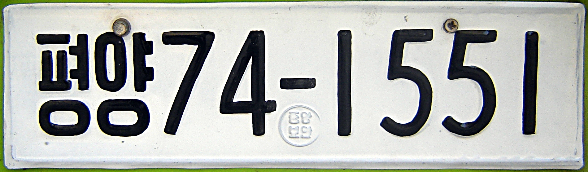 Licence plate for state owned vehicles in North Korea, 평양 = Pyongyang, 74 = Korea International Travel Company "KITC", Photo taken in Pyongyang